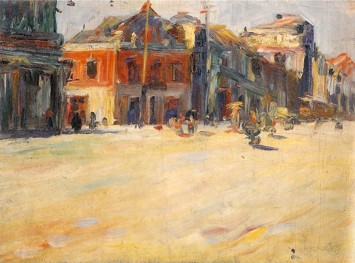 Kishida "Ginza"